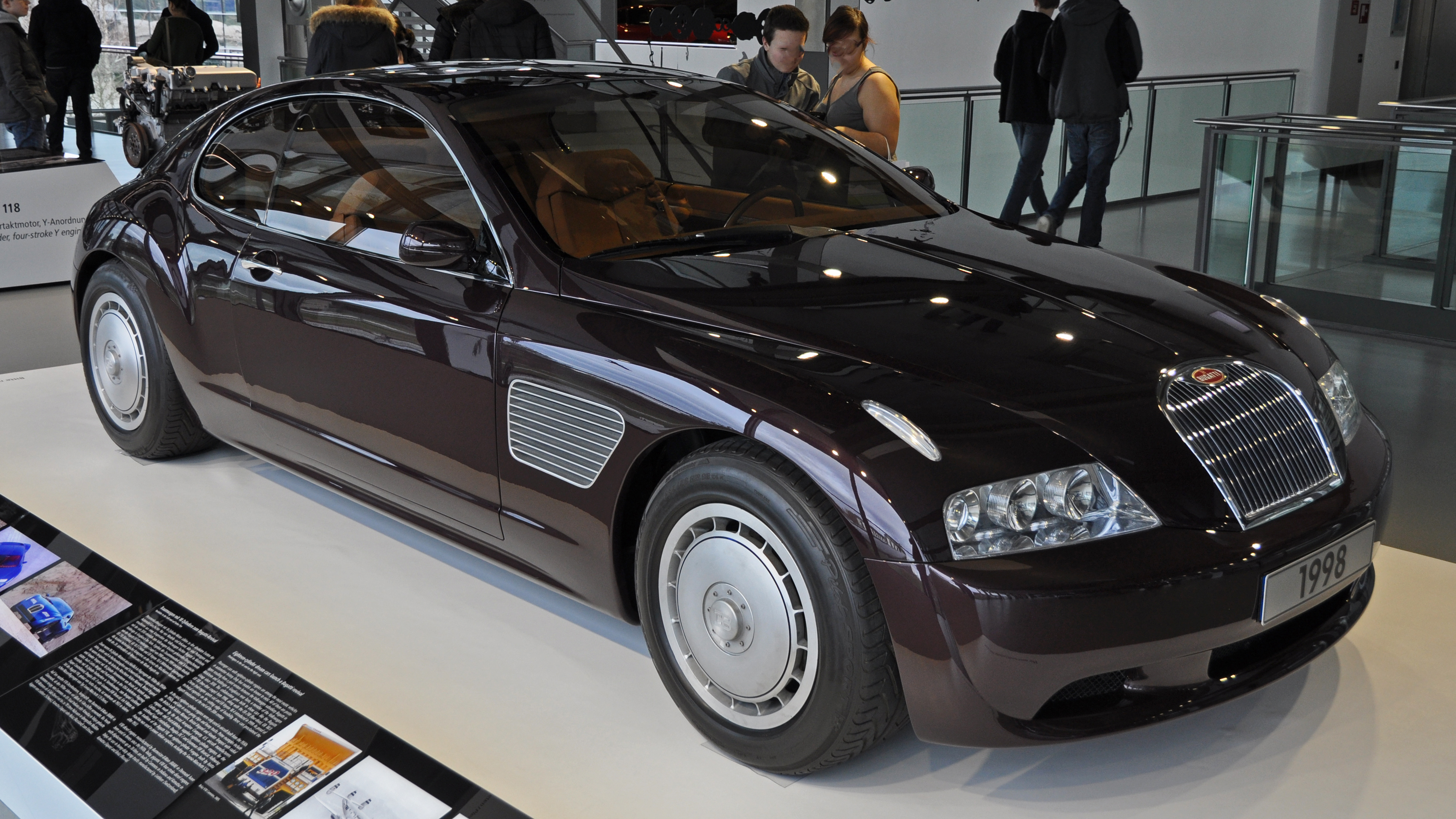 Bugatti EB 118 at the VW-Autostadt, Wolfsburg